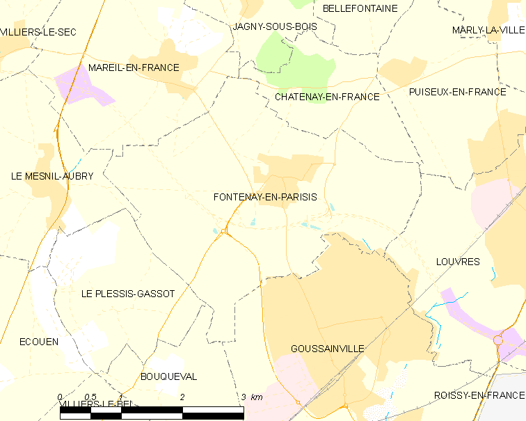 Map of French municipality Fontenay-en-Parisis